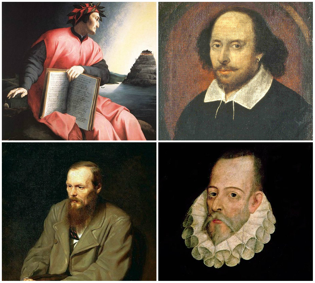 Europeans Novelists. Anyone can use these original photos themselves among others and make another collage of (Europeans) themselves or remix as they wish, as long as they give the correct source and usage/Copyright given. Dont delete the photos, if one becomes unusable due to copyright, please dont delete, just replace the photo or i will.